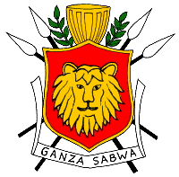 Kingdom of Burundi (1962-1966) Coat of Arms